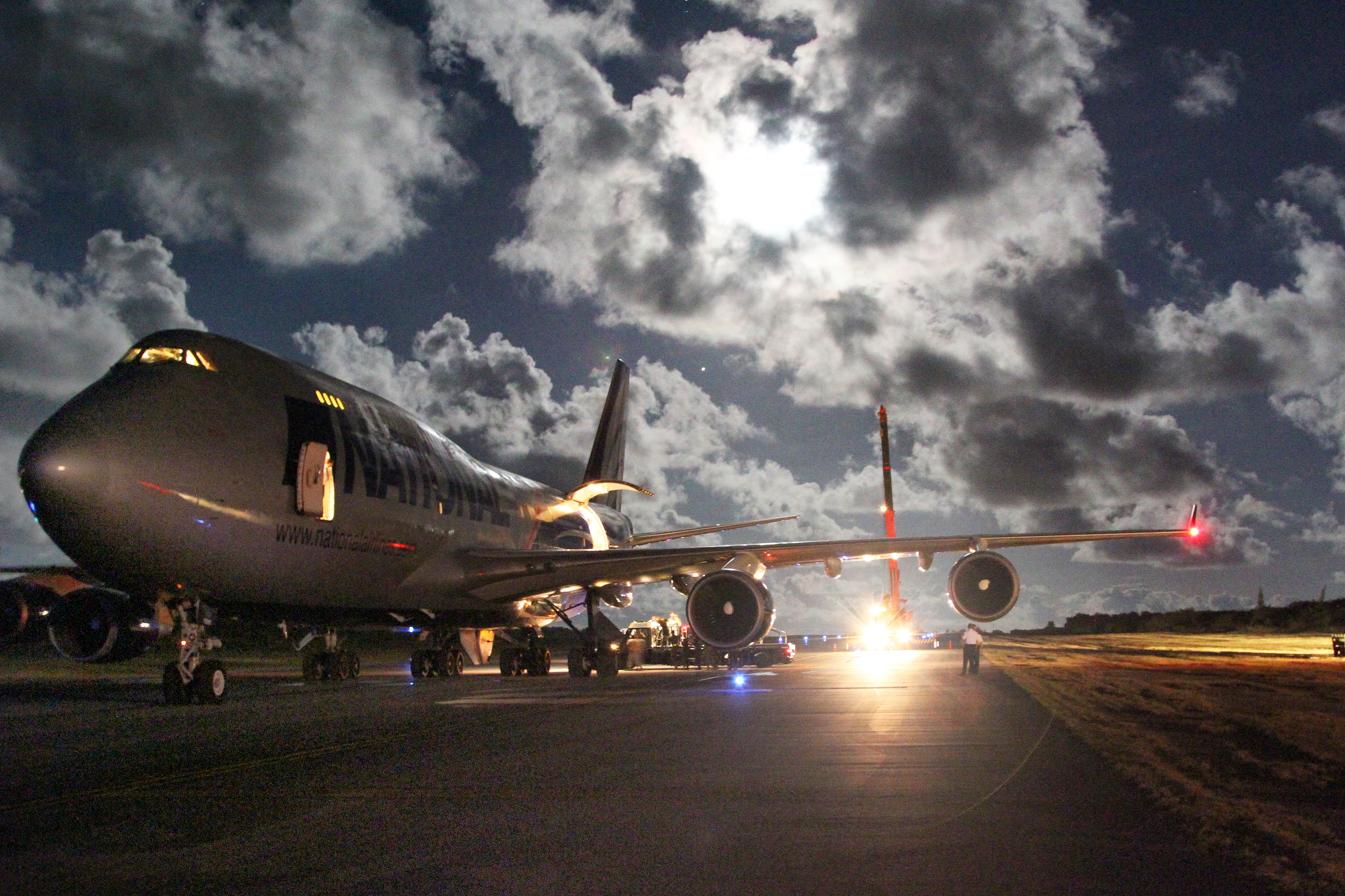 U.S. Marines unload a Boeing 747-400 carrying gear and equipment for Exercise Forage Fury 2012 on Tinian, Northern Mariana Islands, Nov. 28, 2012. The island will host nearly 100 U.S. Marines and sailors during the exercise.